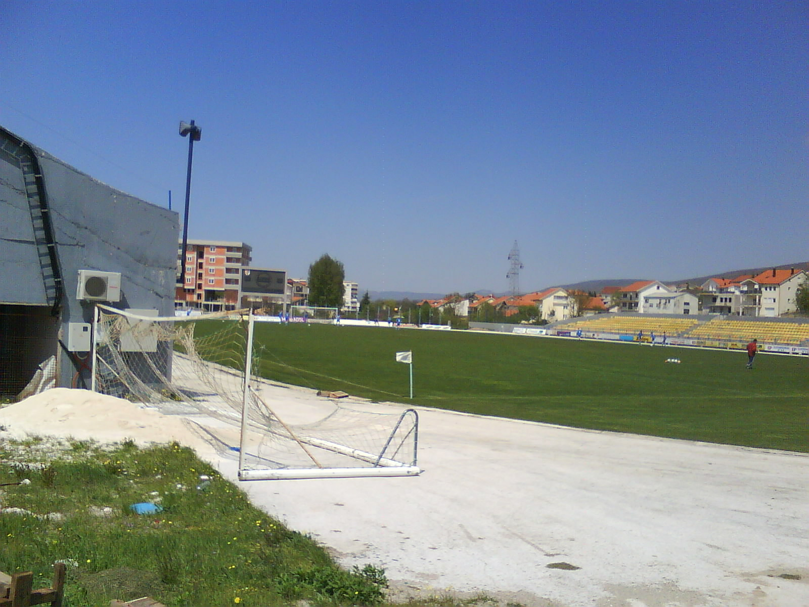 Mokri Dolac football stadium in Posušje